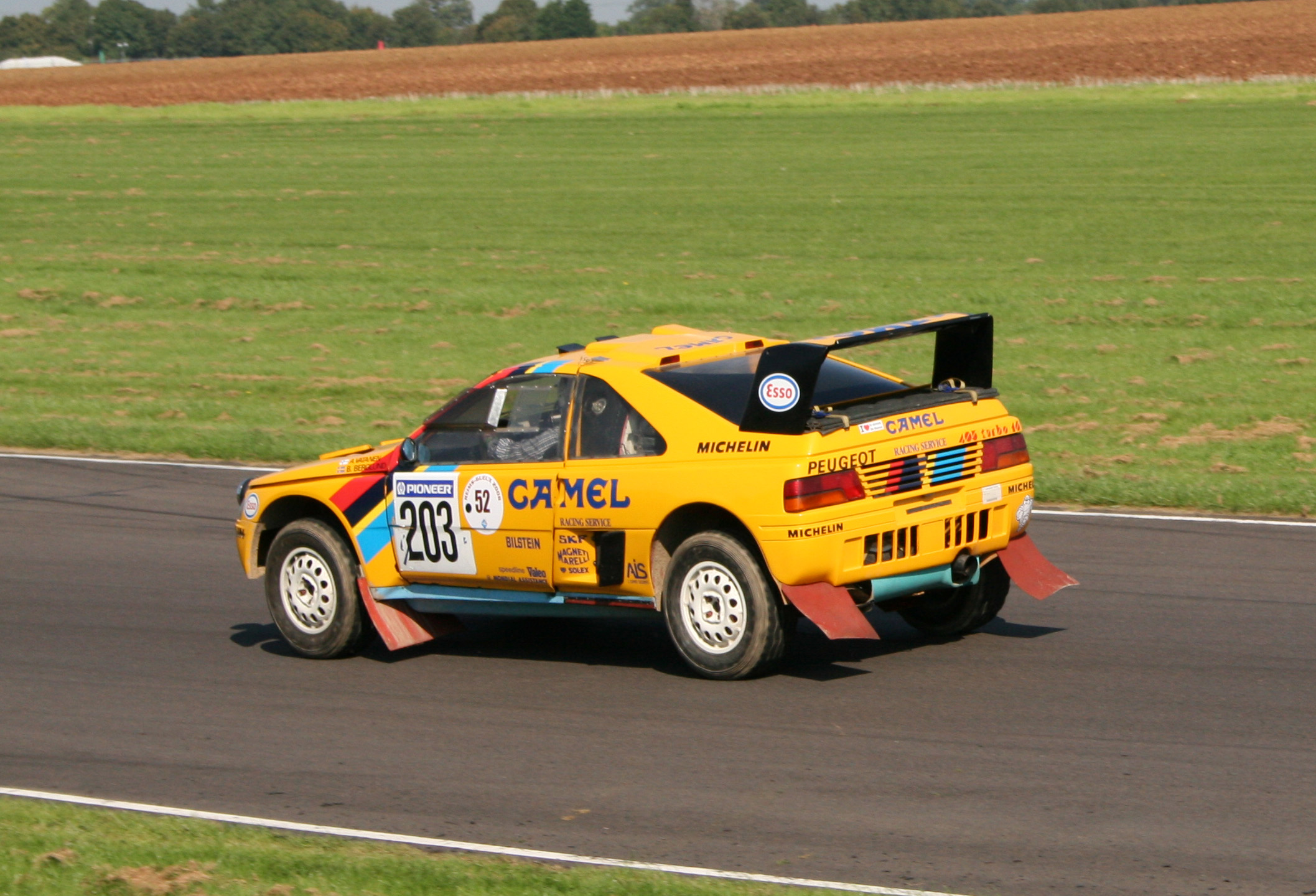 The 1990 Peugeot 405 T16 Dakar Rally version at Castle Combe Circuit.